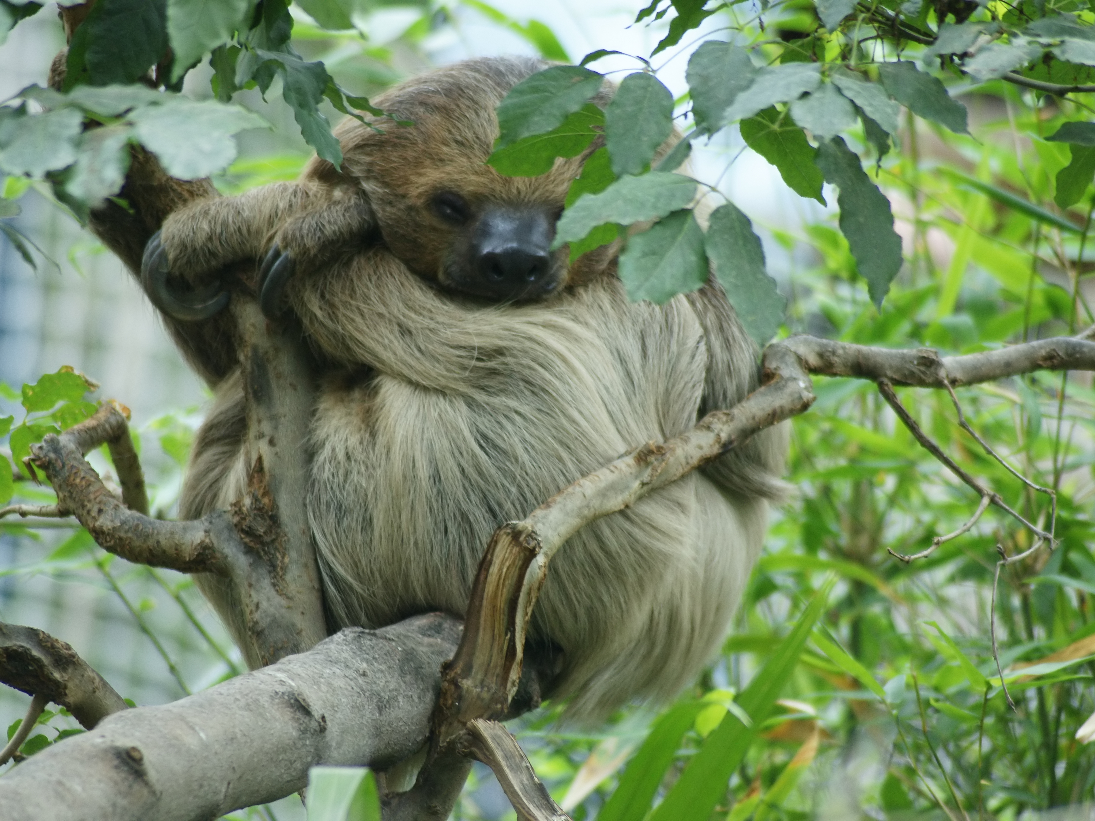 Southern Two-toed Sloth at Paradisio, Brugelette, Belgium